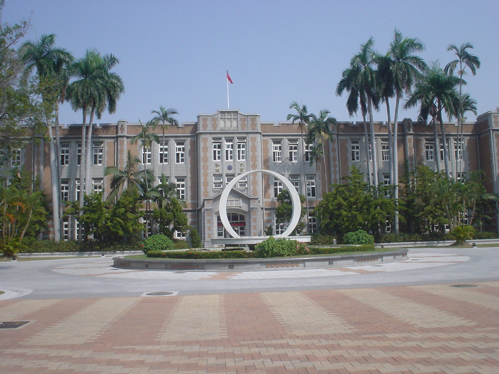 Administration Building of National Taichung University.